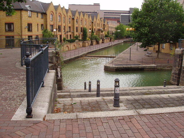 Canals of Wapping. It is hard to imagine that just over 30 years ago, this area was one huge inland dock. The London Dock at Wapping was completed in 1805 to serve the growing trade coming into London. By the 1960s the docks were almost derelict so the London Docklands Development Corporation drained the area and built a huge estate of mixed housing. The canals that remain are a link with the past but this is now a quiet residential area where once it was the heart of dockland.